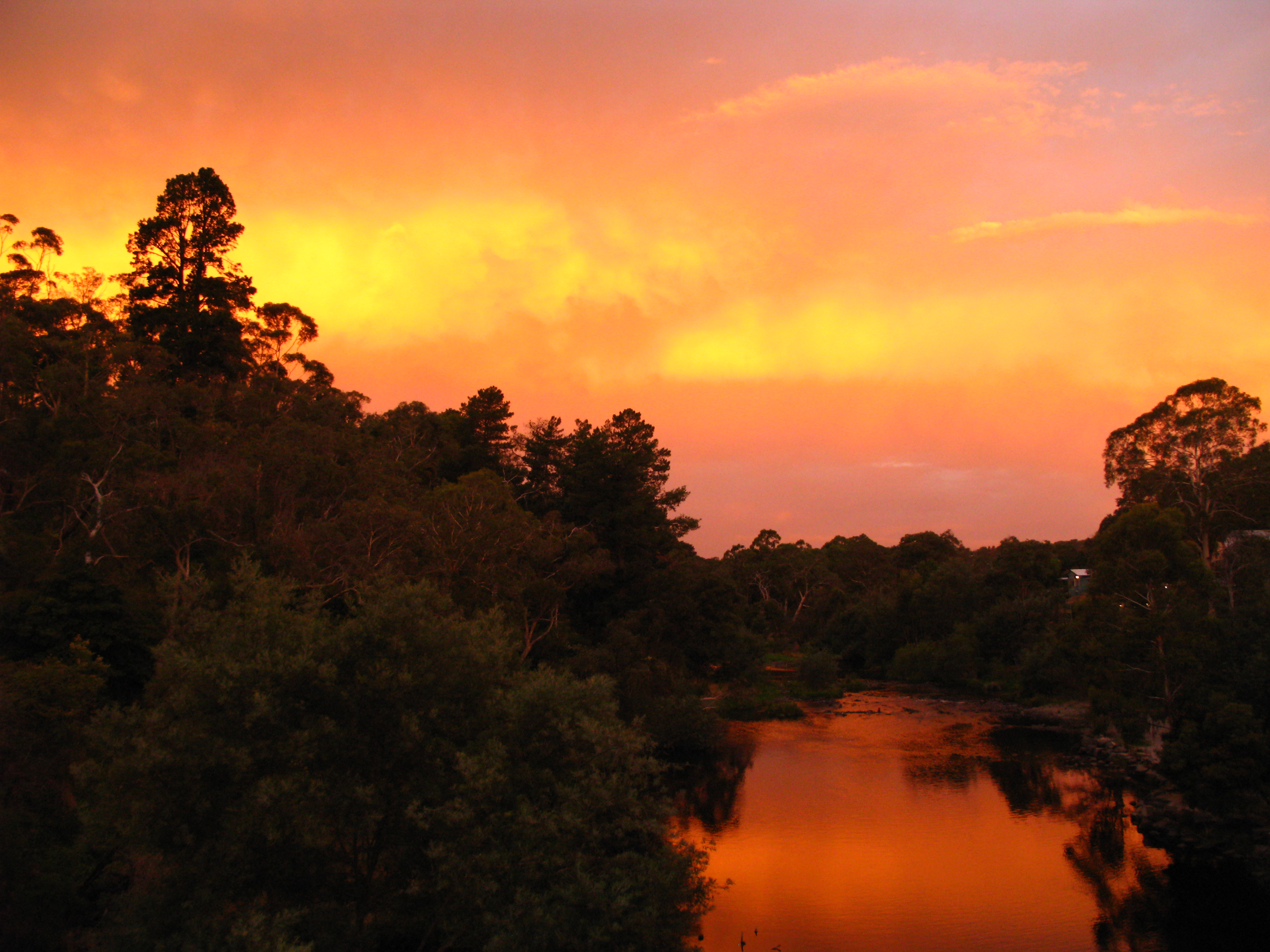 Smoke mixes with clouds over Warrandyte on the afternoon of the 8th of February. Photo taken by myself, looking northeast.